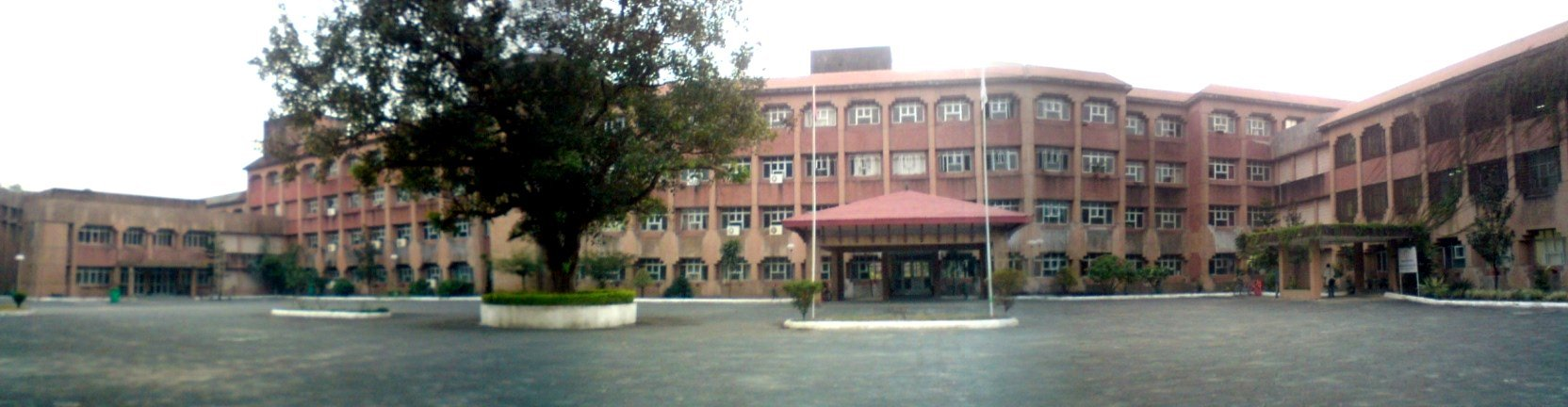 A panoramic view of Medical College Building , BPKIHS